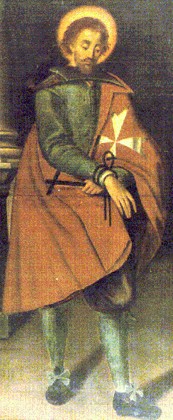 Sir Adrian Fortescue, martyr (1476–1539); painting located at the Collegio di San Paolo in Rabato in Malta